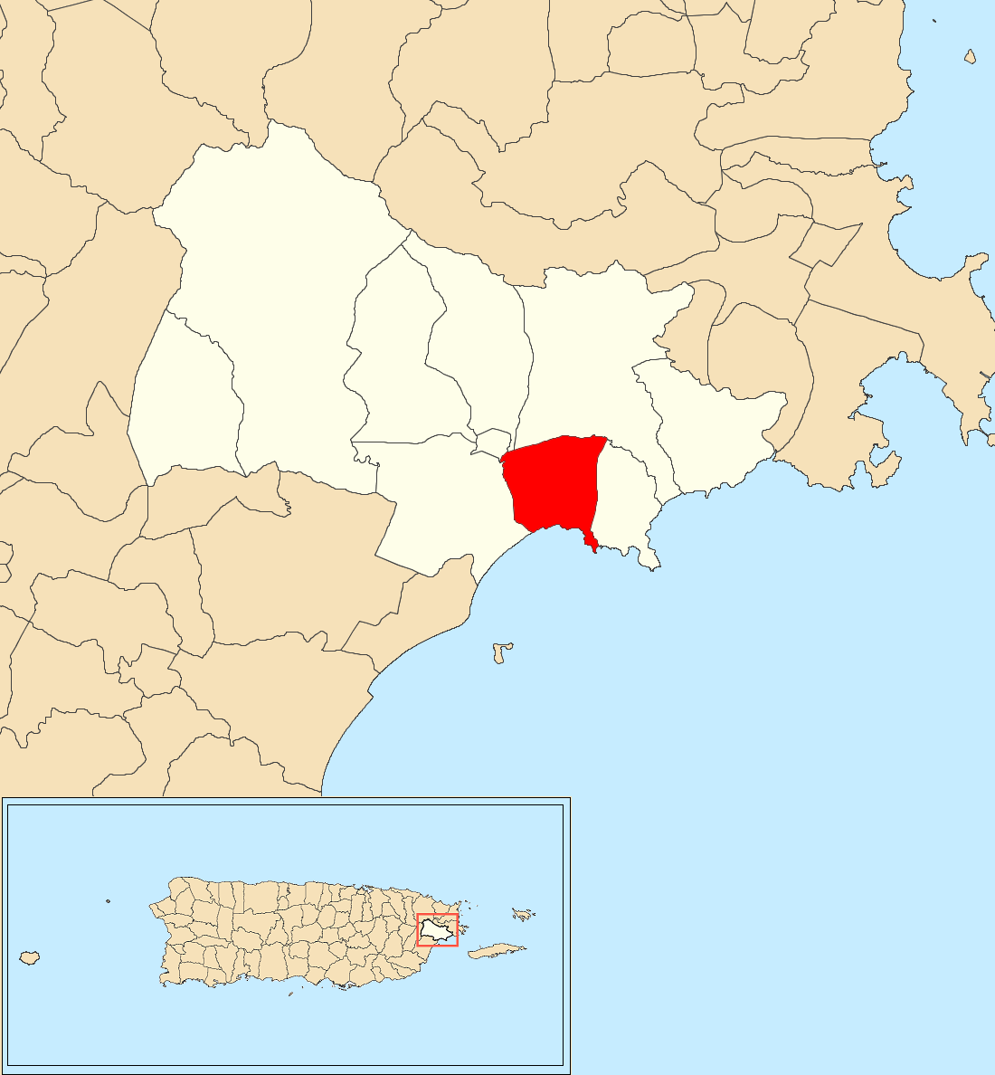 Húcares, Naguabo, Puerto Rico locator map